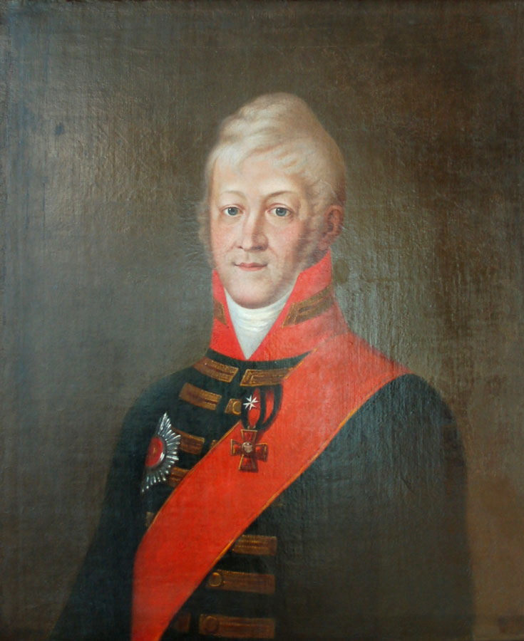 Portrait of Baron Balthasar von Campenhausen (1772-1823), Russian statesman, Governor of Taganrog